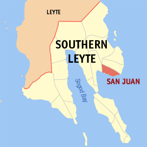 Map of Southern Leyte showing the location of San Juan